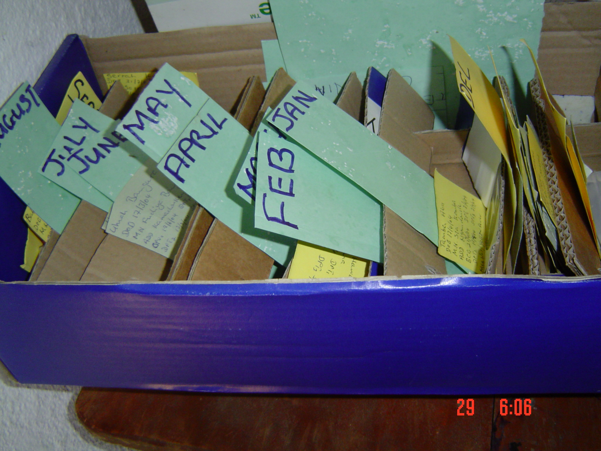 Tickler system photographed in 2004